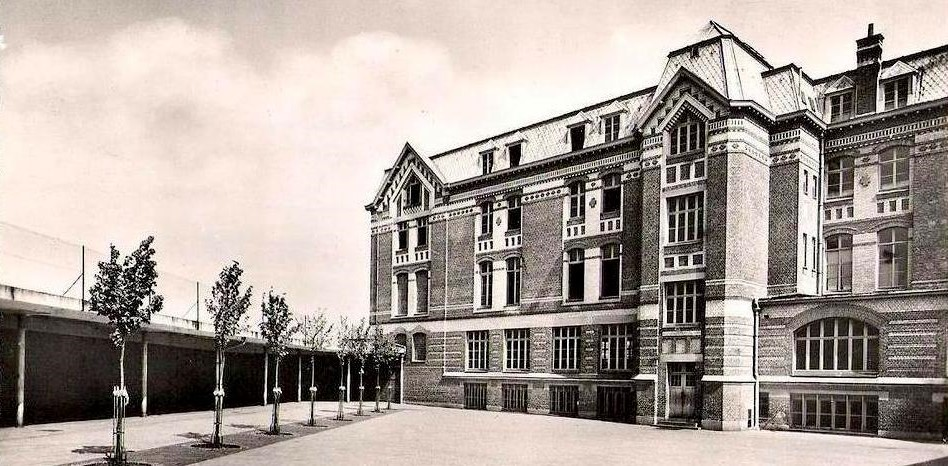 Saint-Michel Small inner Yard